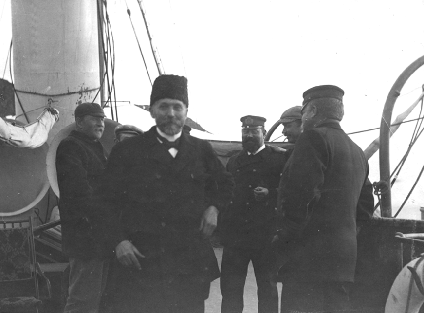 S A Andrées Polarexpedition. On board HMS Svensksund from left to right: Salomon August Andrée, Alexis Machuron, Jonas Stadling, Christian Jonas Lembke, Nils Strindberg, Carl Ehrensvärd